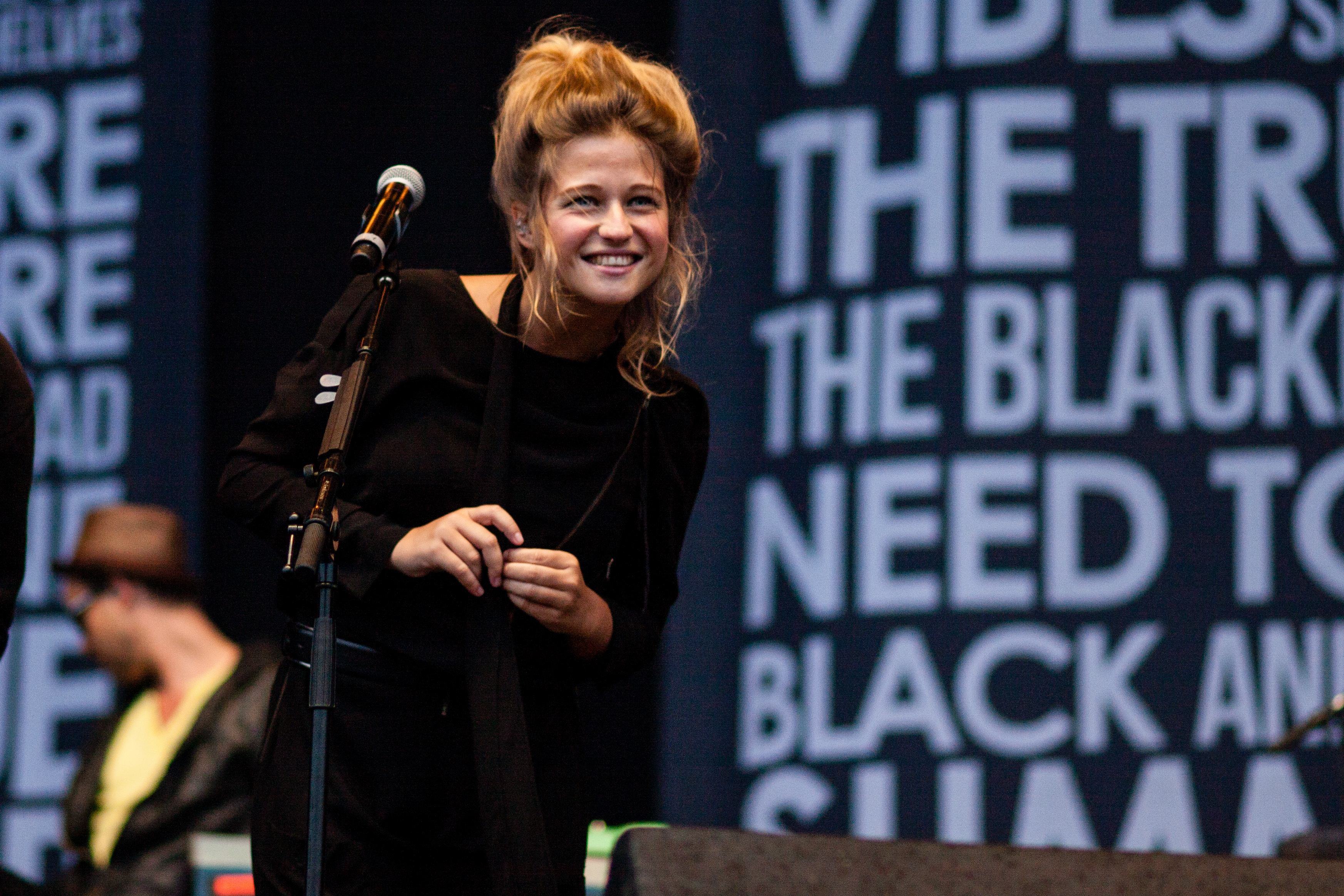 Follow me on facebook Twitter : @didyPhotography All the photographies I've made are now under CC0 (Creative Commons Zero) CC0 - learn more To the extent possible under law, Eddy BERTHIER has waived all copyright and related or neighboring rights to Selah Sue @ Dour 2012. This work is published from: France.